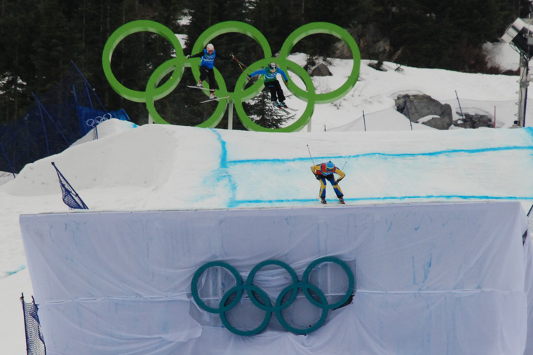 Skicross ladies at Cypress Mountain, BC during the Vancouver Olympic Games, february 23rd 2010.